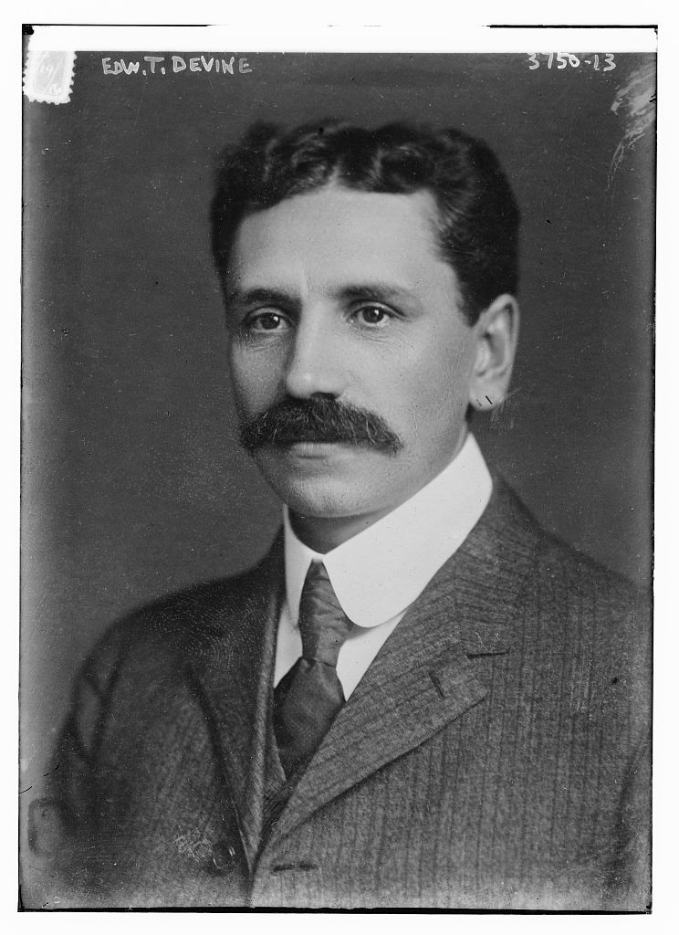 Photograph shows economist, author and social worker Edward Thomas Devine (1867-1948) who was a professor at Columbia University. (Source: Flickr Commons project, 2013)